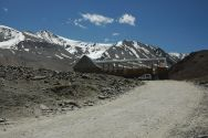 "Thumbnail for Baralaacha2.jpg"